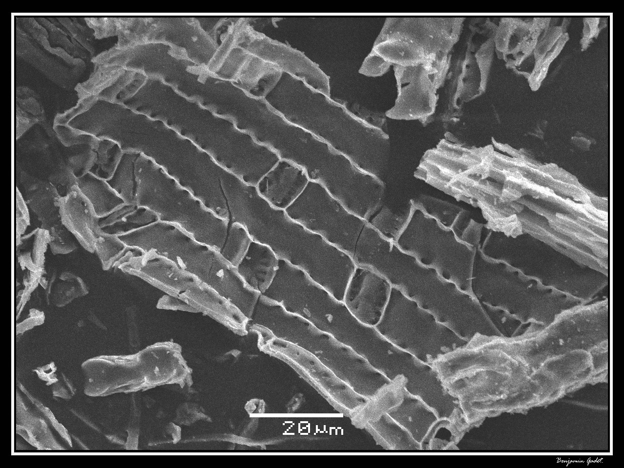 Phytoliths are extracted from plant material (Elephant Grass) by dry ashing method, adapted from Parr & al., 2001 . A sample of phytoliths extracted from the elephant grass was analyzed by Scanning Electron Microscope (SEM) JEOL JSM 6360LV assisted by ESPRIT software processing 1.9. This observation reveals that the product is mainly composed of silicon and oxygen with occasional trace elements (Al, Ti, Fe, ...). Parr JF , CJ Lentfer and WE Boyd (2001) A comparative analysis of wet and dry technology for the extraction of phytoliths from plant material ashing . Journal of Archaeological Science 28 , 875-886 .